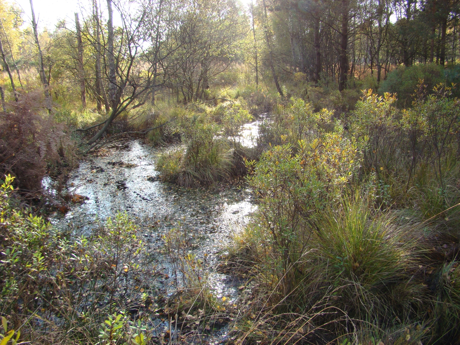 Renaturalised area of the Bornrieth Moor, Lower Saxony, Germany